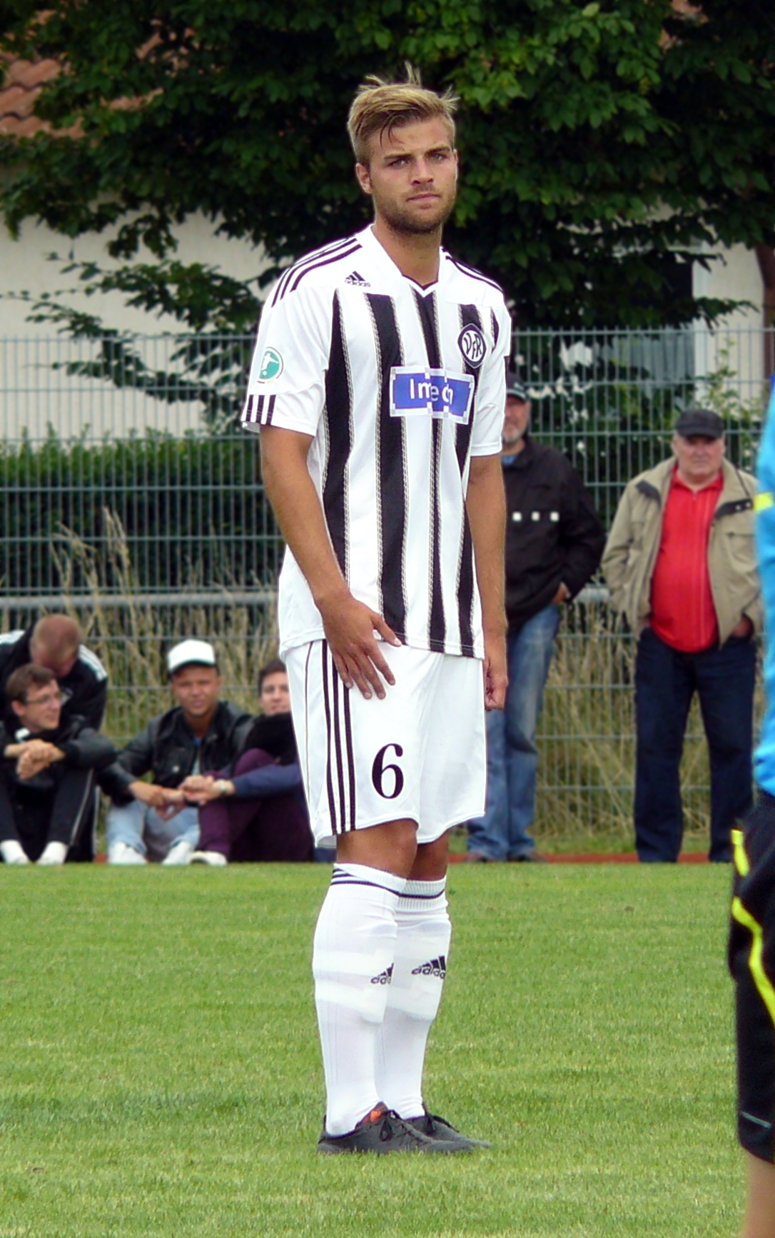 Sascha Herröder (VfR Aalen), German footballer